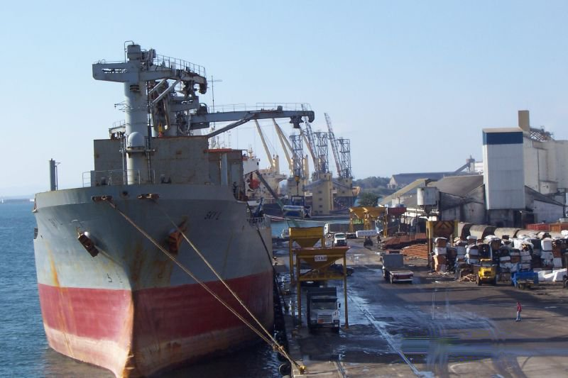 cargo ship SKY L at bizerte port 3